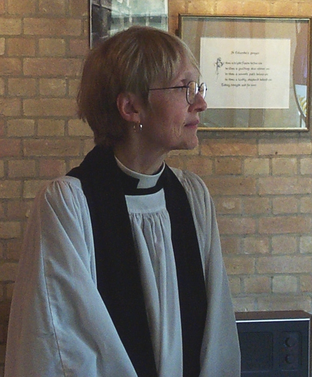 Marilyn McCord Adams, American philosopher